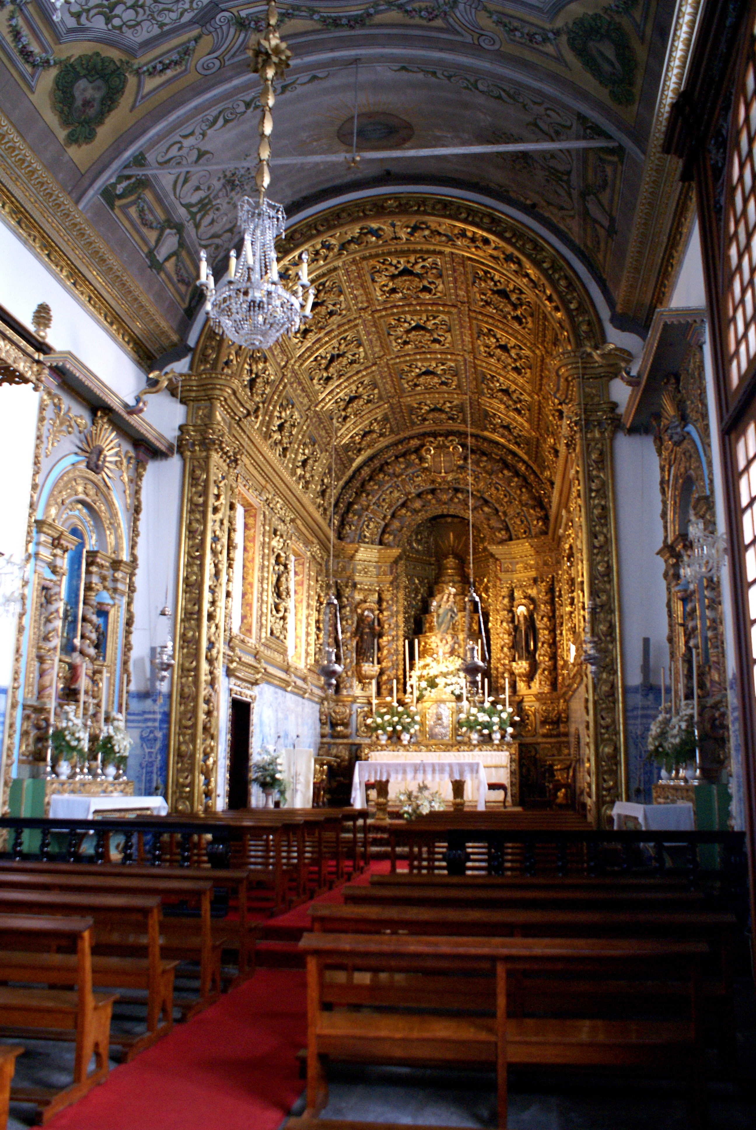 The interior of the Church of Santo Cristo dos Milagres, Ponta Delgada, São Miguel (Azores), Portugal